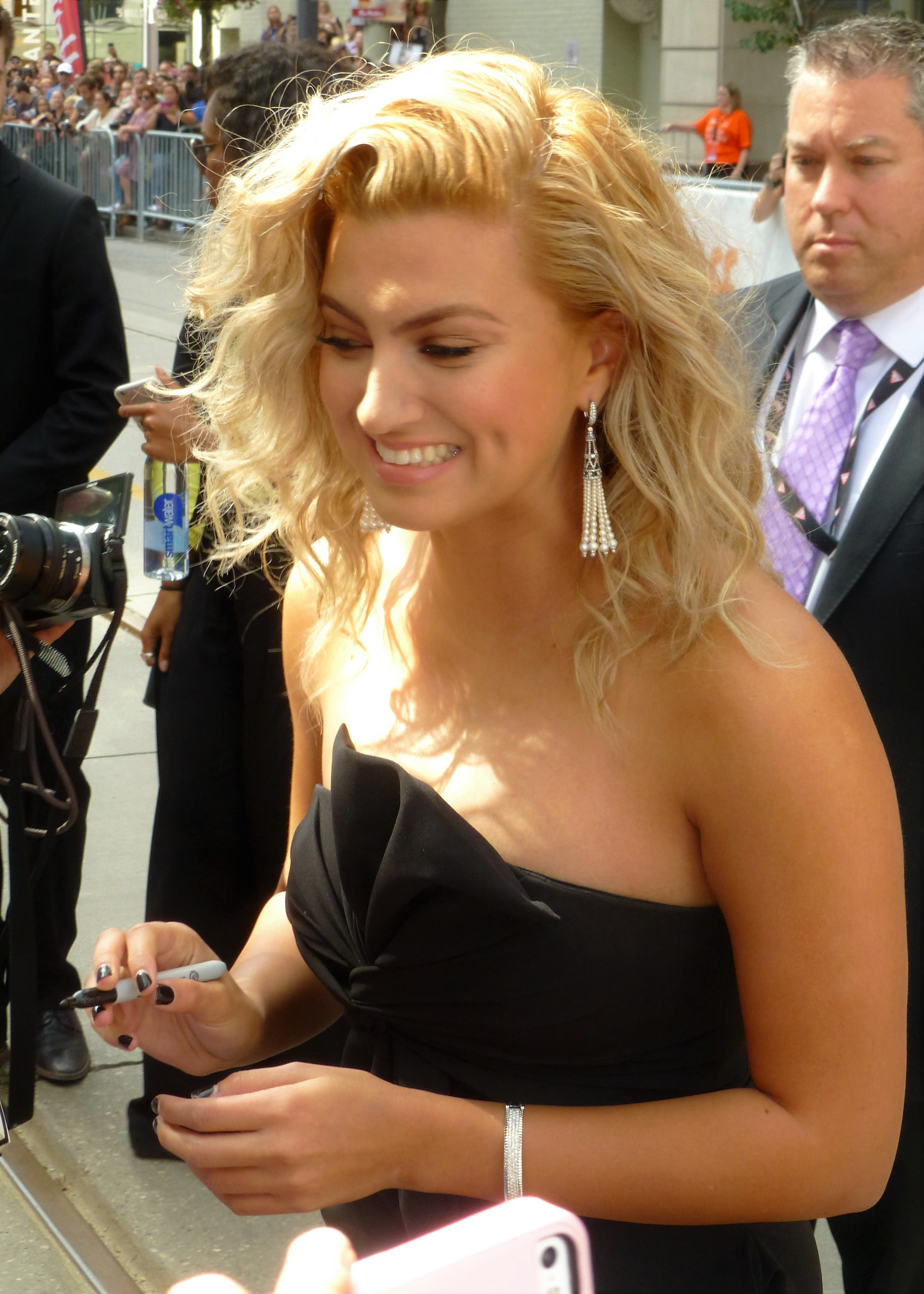 Tori Kelly at the premiere of Sing, 2016 Toronto Film Festival